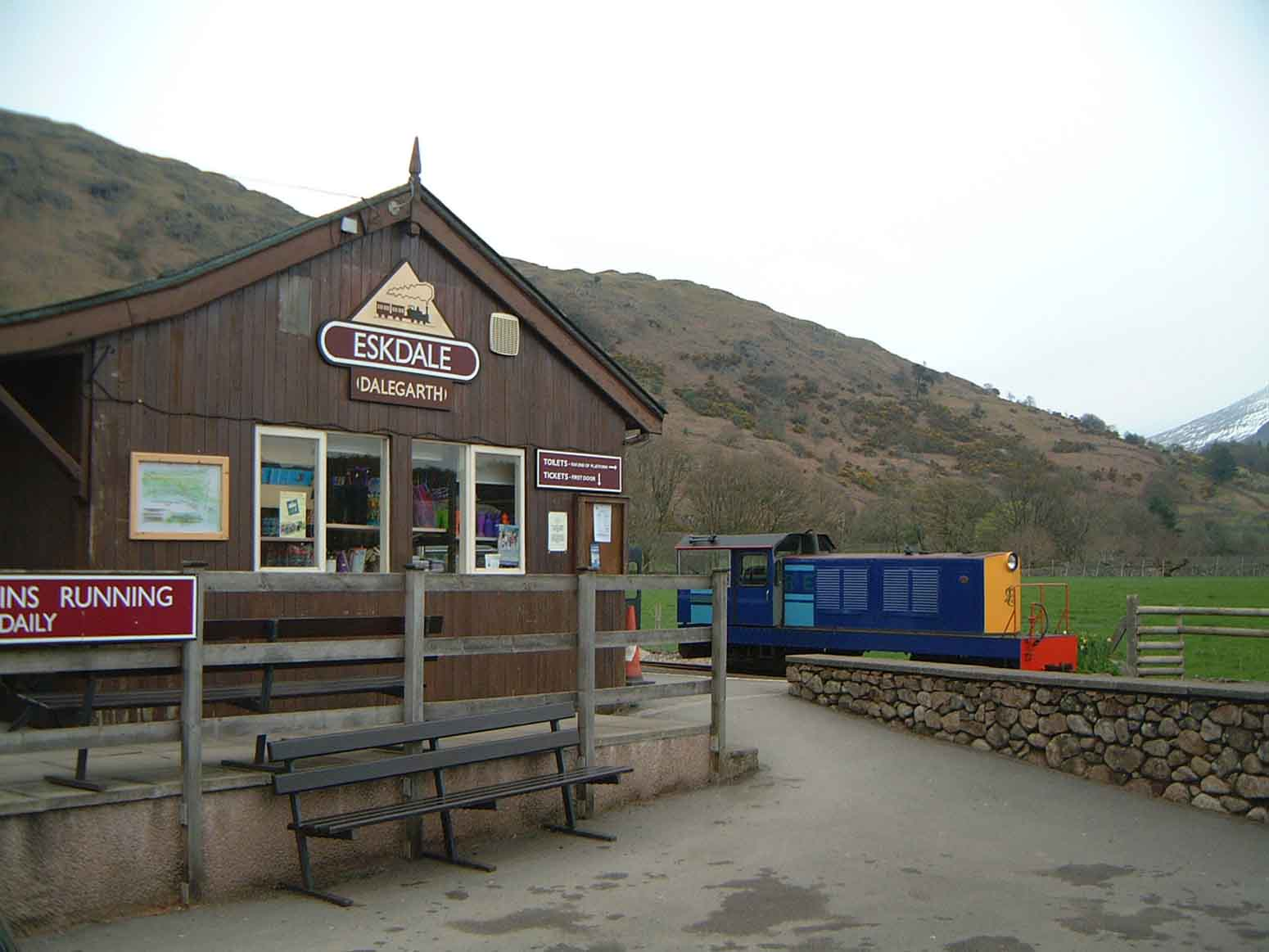 Personal photograph taken by Mick Knapton on 17th April 2005